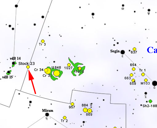 Map of Stock 23